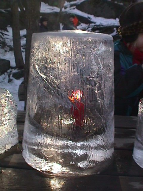 lantern of ice